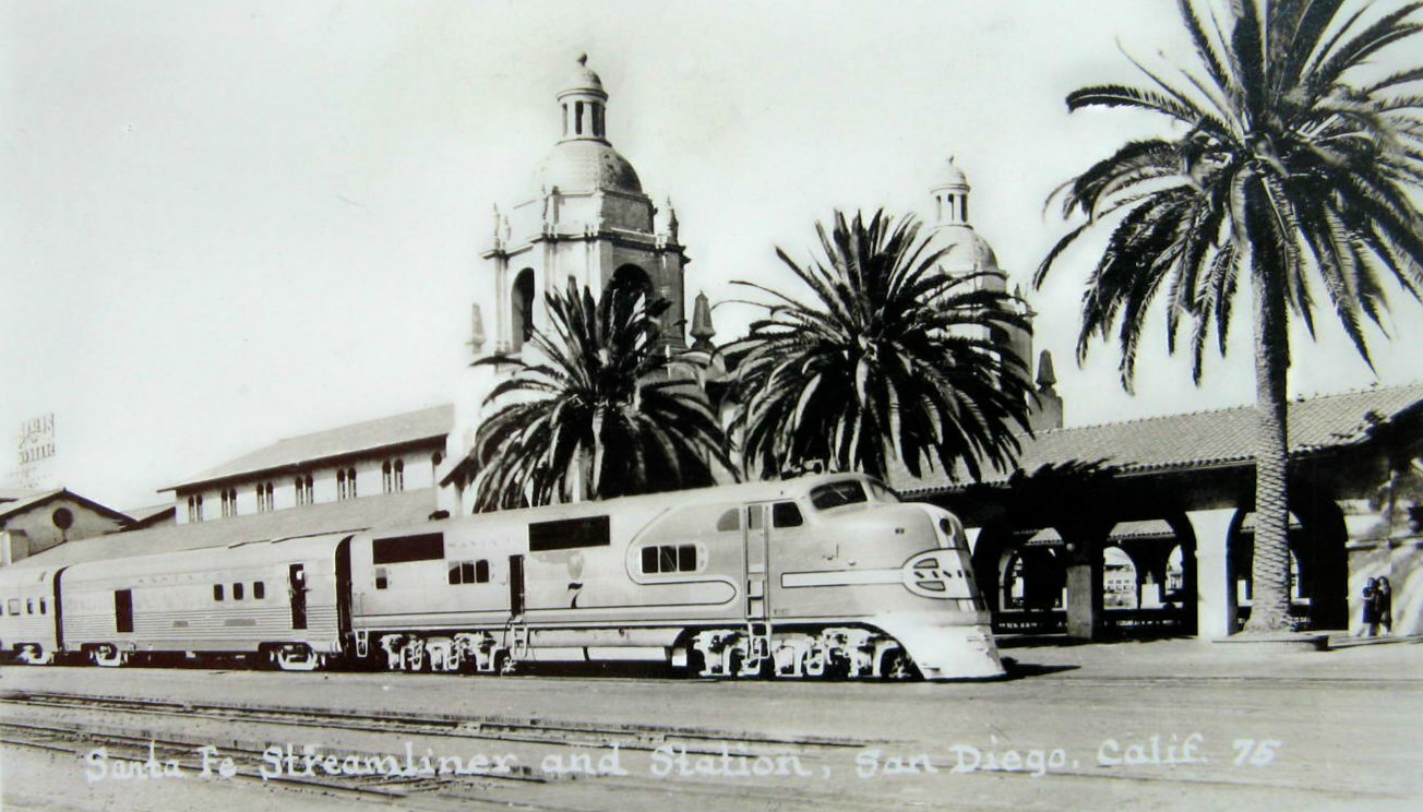 Postcard photo of the Santa Fe train "San Diegan" at the San Diego depot.